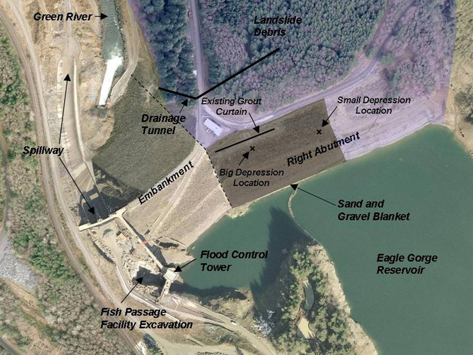 Image created by and courtesy of U.S. Army Corps of Engineers. Exact date not listed.